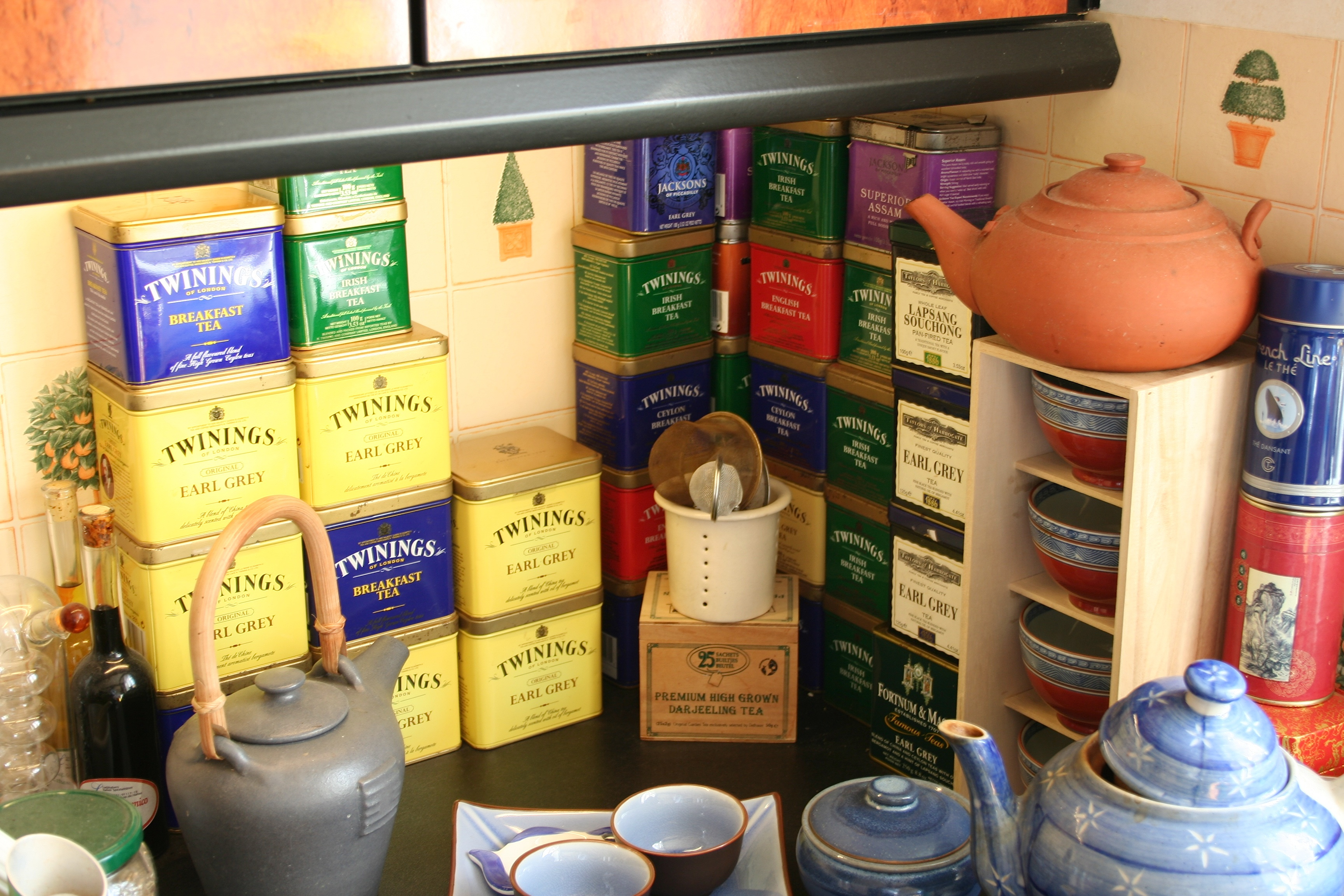 A bunch of empty tea box at adulau's home.